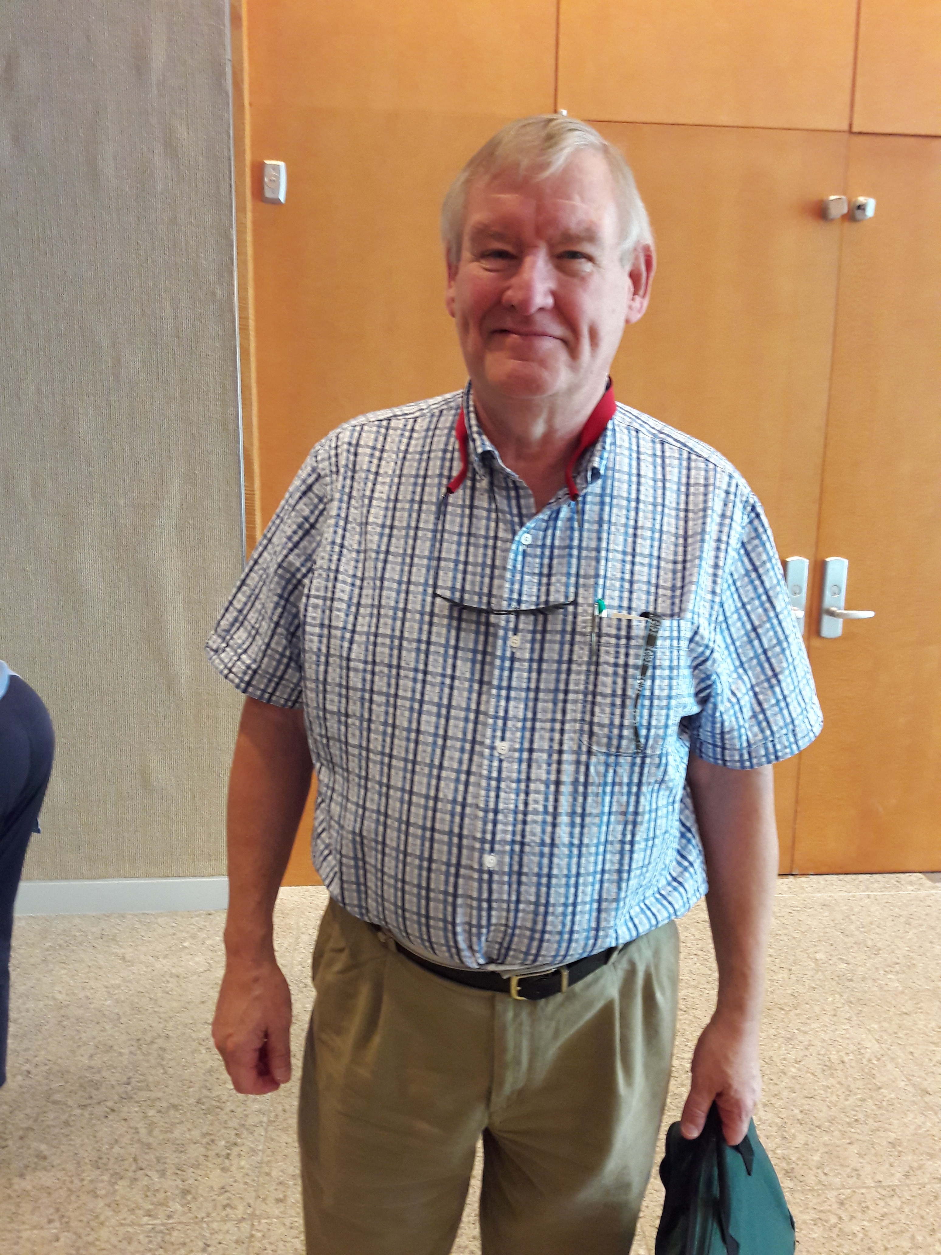 This is a photograph of historian and author Jon Kukla at the Library of Virginia's Bud Robertson talk on September 14, 2016. He is pictured in the Library's interior.